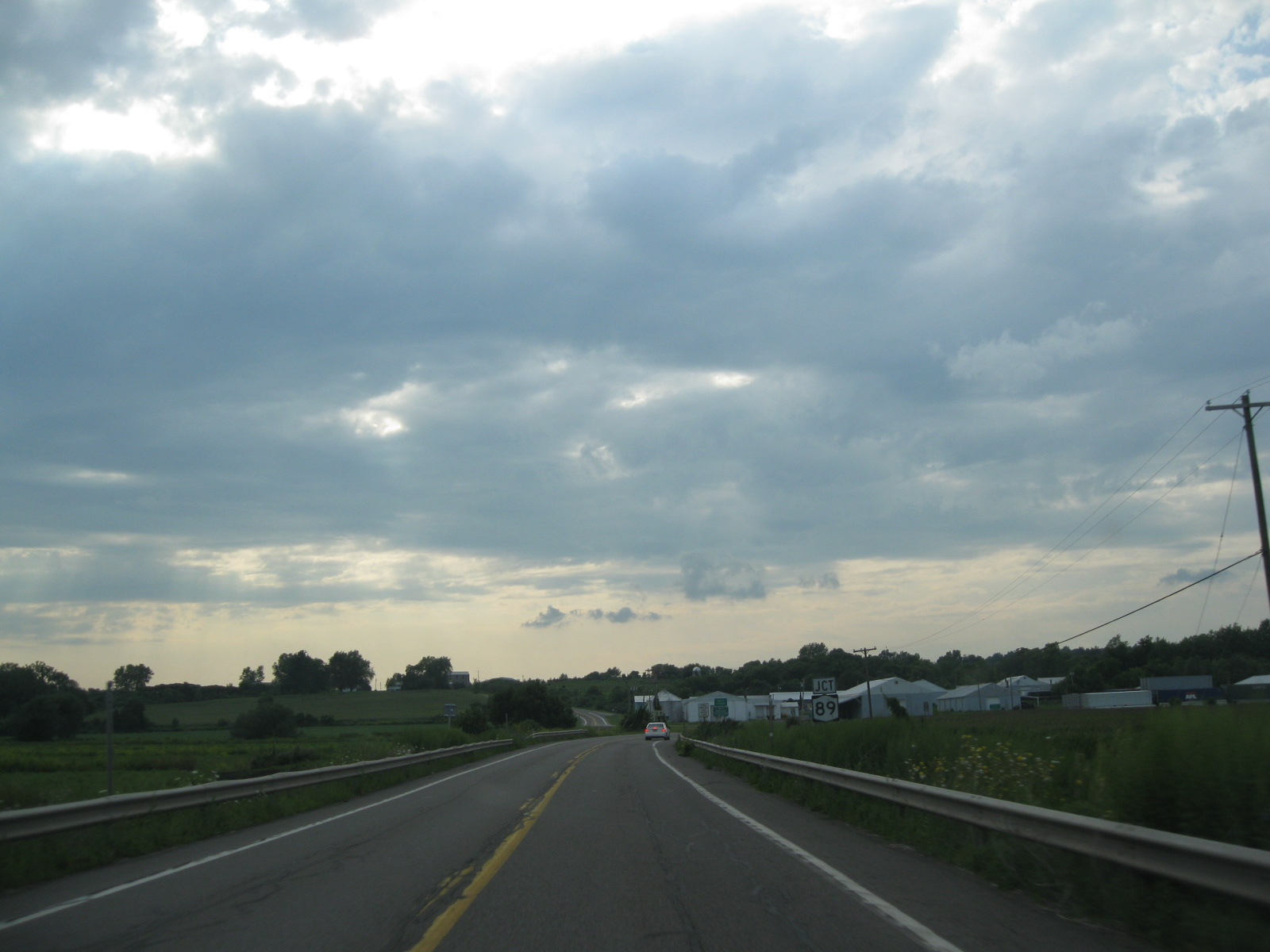 Approaching New York State Route 89 on New York State Route 31 westbound in Tyre.